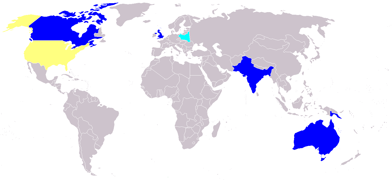 Operators of the Boulton Paul Defiant.. Dark blue = operator, light blue = operator in exile, yellow = training use only. Own work, derivative of File:BlankMap-World-WWII.PNG.